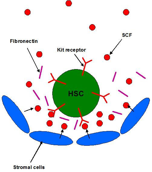 A diagram of a hematopoetic stem cell inside its niche. Stromal cells secrete a number of ligands, including stem cell factor (SCF).